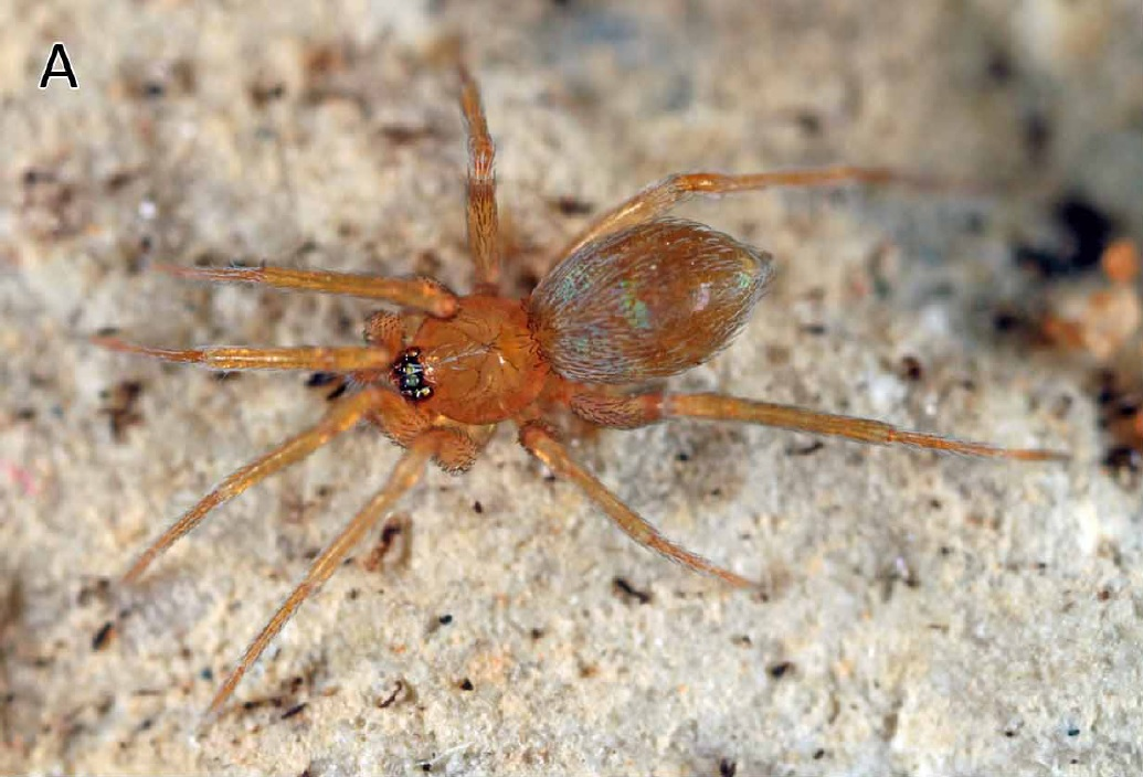 Tapinesthis inermis, male